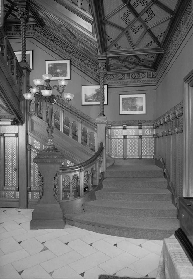 Mark Twain House, 351 Farmington Avenue, Hartford, Hartford County, CT - Entrance Hall.